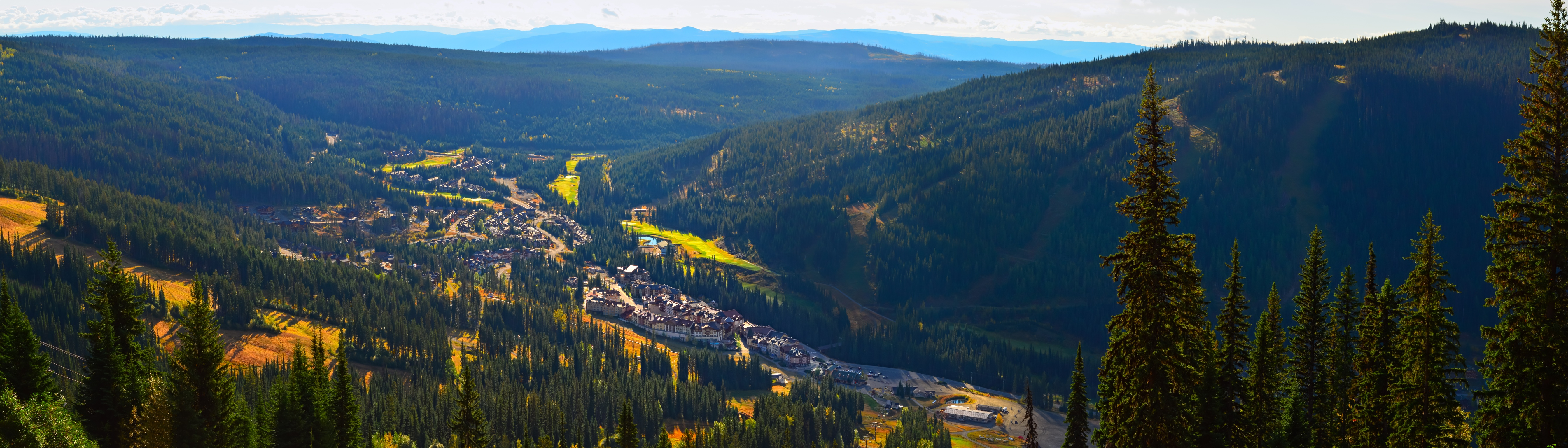 Sun Peaks, BC Panorama from Tod Mountain, taken September morning